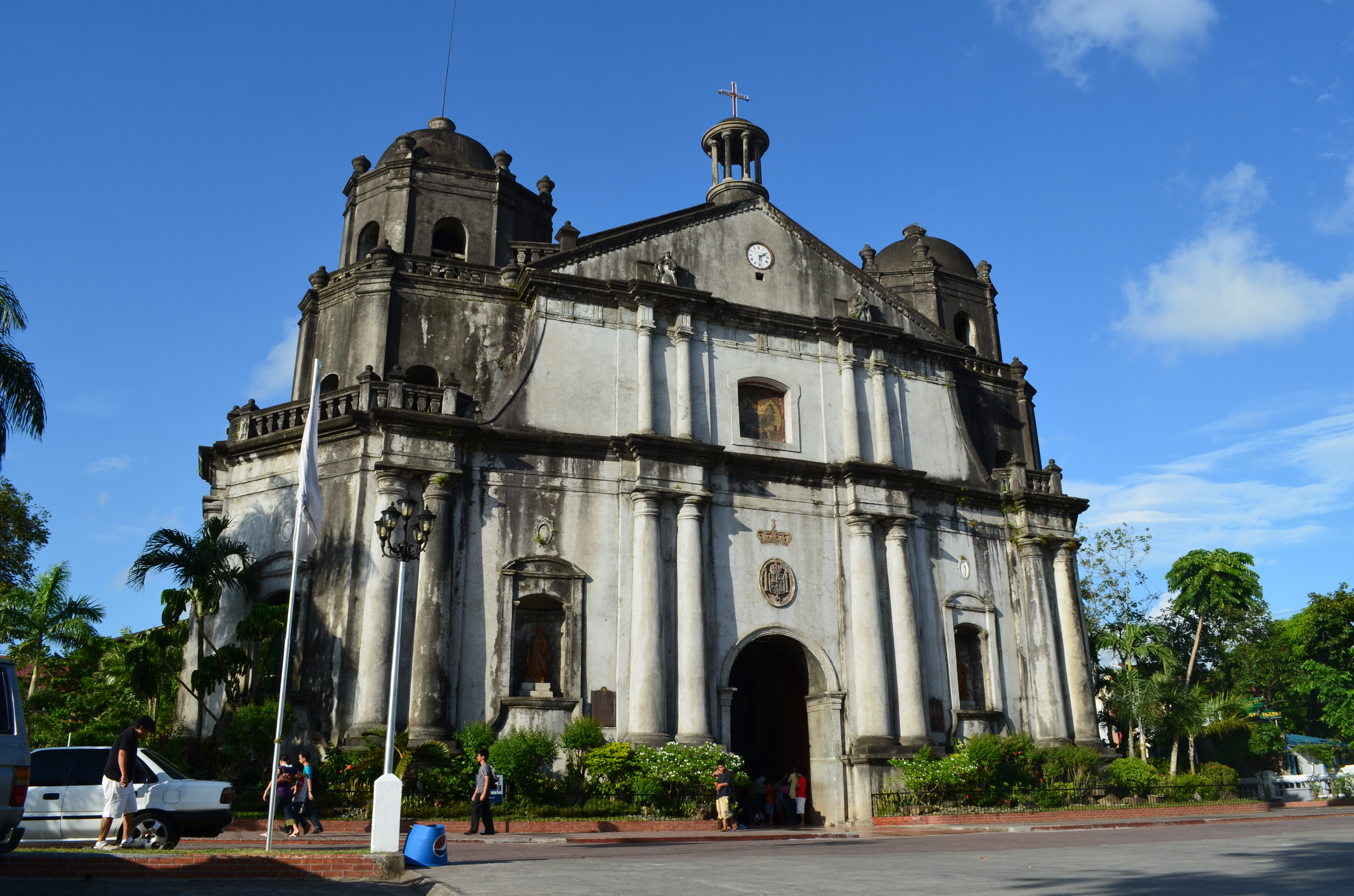 The seat of Archdiocese of Caceres, construction began on 1595 until 1890.